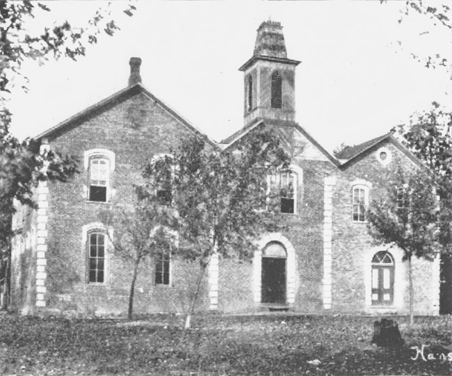 The Pea Ridge Masonic College building was built in 1880 and razed in 1929. This image was taken in 1920.